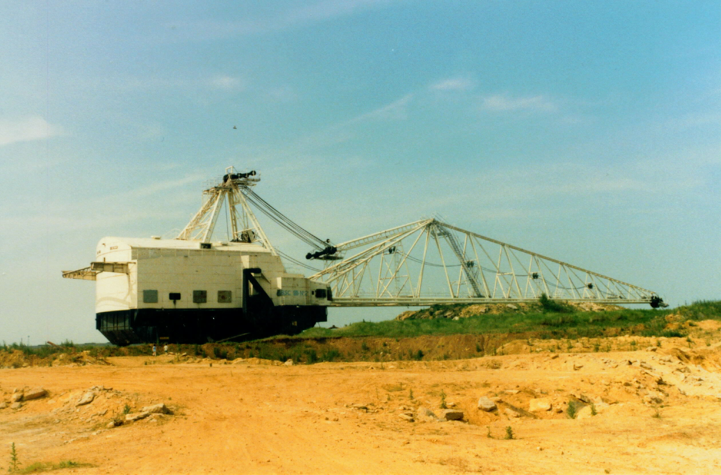 This picture shows a large walking dragline which operated in the UK between the 1950s and 1980s. The picture was taken in ~July/August 1986 by Mr D King. For an idea of scale, the photographer's children, aged around six and ten at the time of capture, can be seen standing in front of the machine towards its rear. This picture is of W1400 N`2 which worked Cowthick quarry oppsite the steelworks next to Weldon. Although similar to Sundew, the boom is 26ft longer and over 200 tons of pig iron ballast were used to balance this legthened boom.